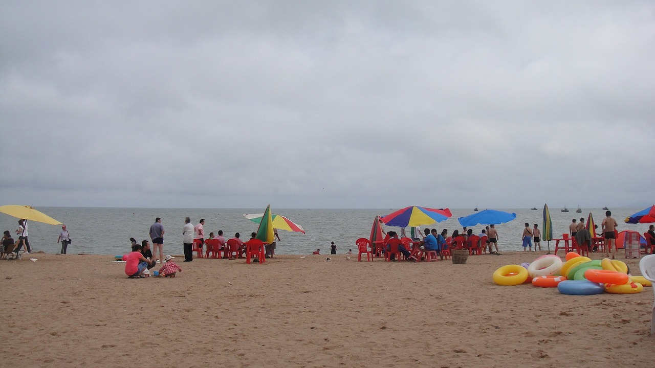 Waterfront park, Old Town, Xingcheng City